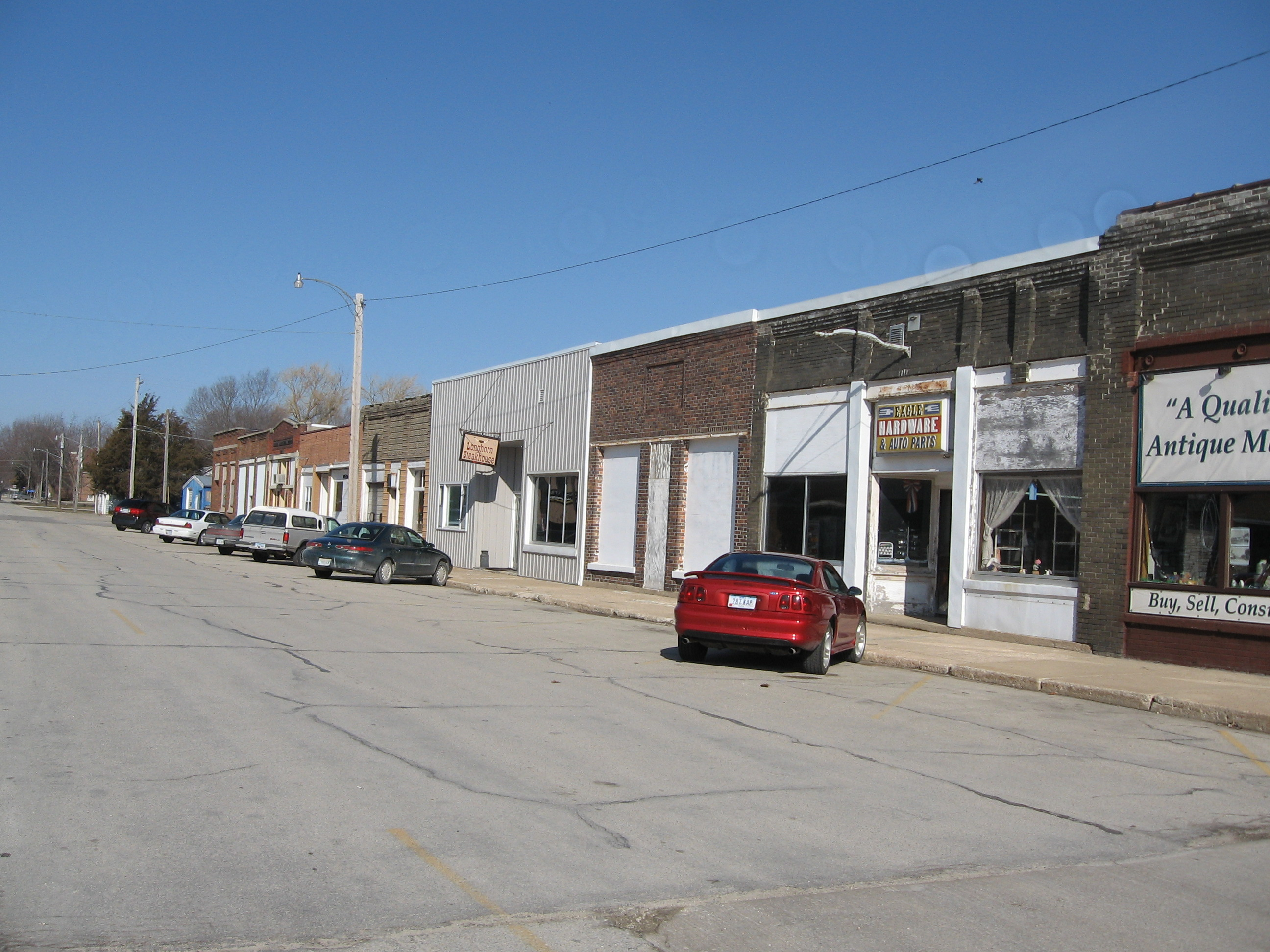 Downtown Floyd, Iowa, 2008